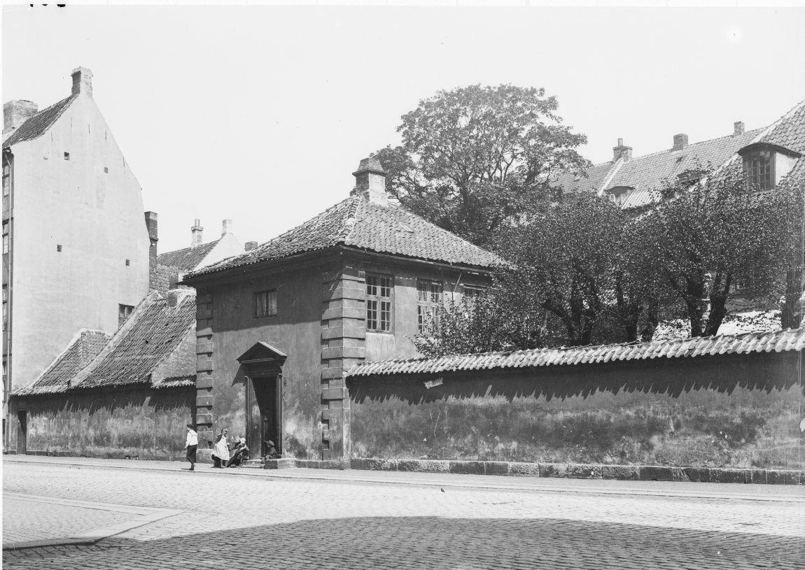 The main entrance of Søetatens Hospital in Balsamgade (from 1897 Olfert Fischers Gade) in Copenhagen, Denmark